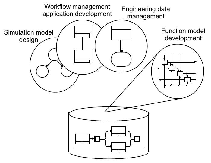 Figure 1-3 IDEF 3’s Focus on Description Capture Enables Maximized Reuse